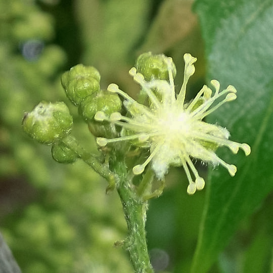 Flower of Croton sylvaticus from Athlone Park, Amanzimtoti, South Africa.